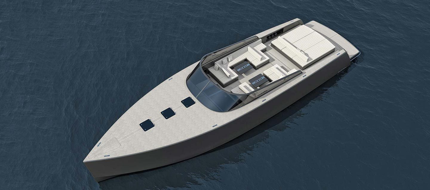 VanDutch 75 yacht